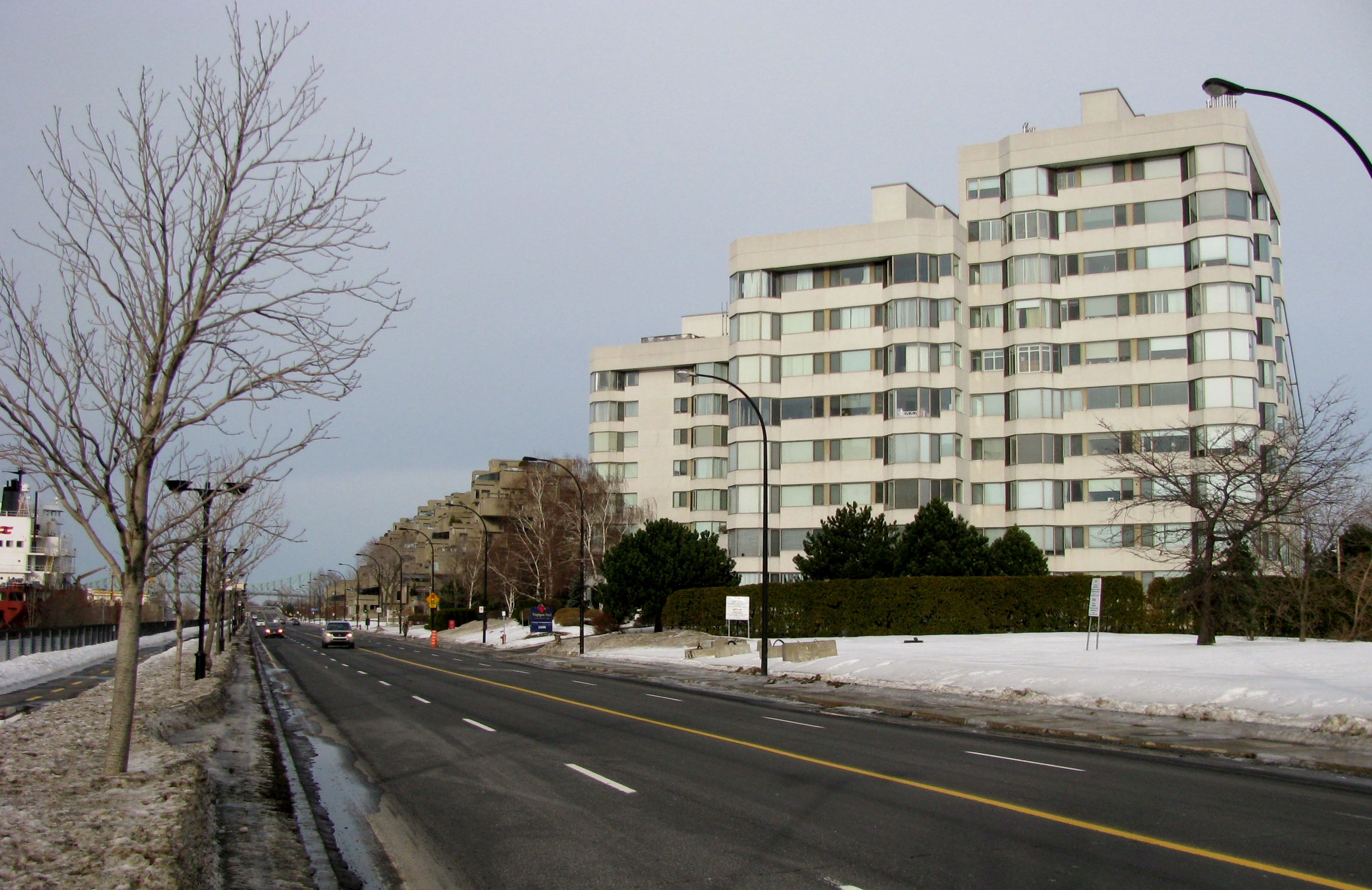 Pierre-Dupuy Avenue, and residential buildings Habitat 67 and Tropiques Nord, in Cité du Havre, Montreal, Quebec, Canada.